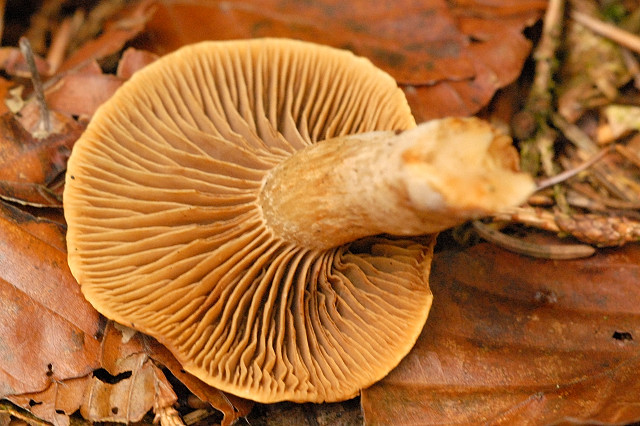 Cortinarius balaustinus from Commanster, Belgium. If you think this is a different taxon, please contact James Lindsey.